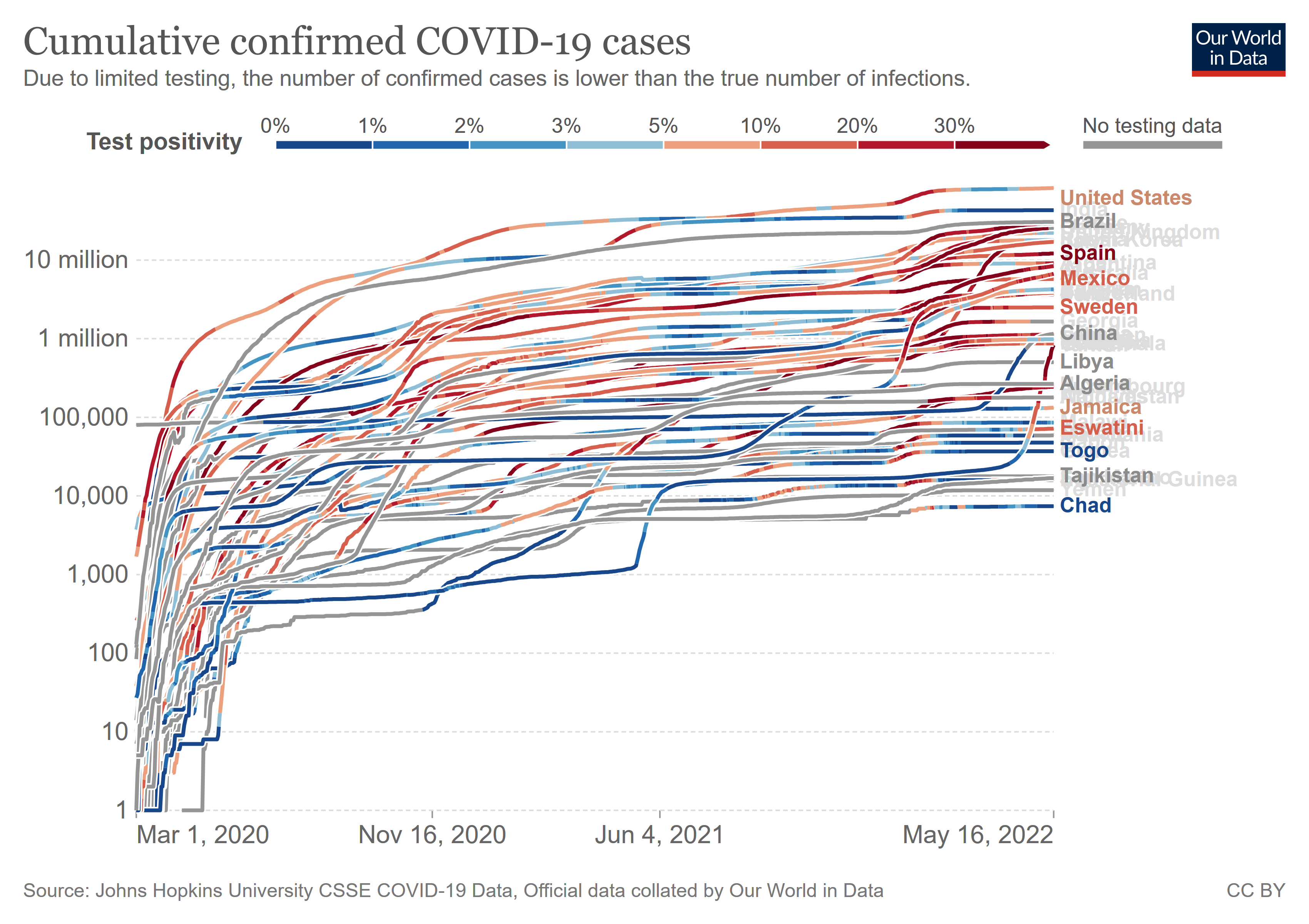 Log scale graph showing the trajectories of COVID-19 cases by country since 100th confirmed case